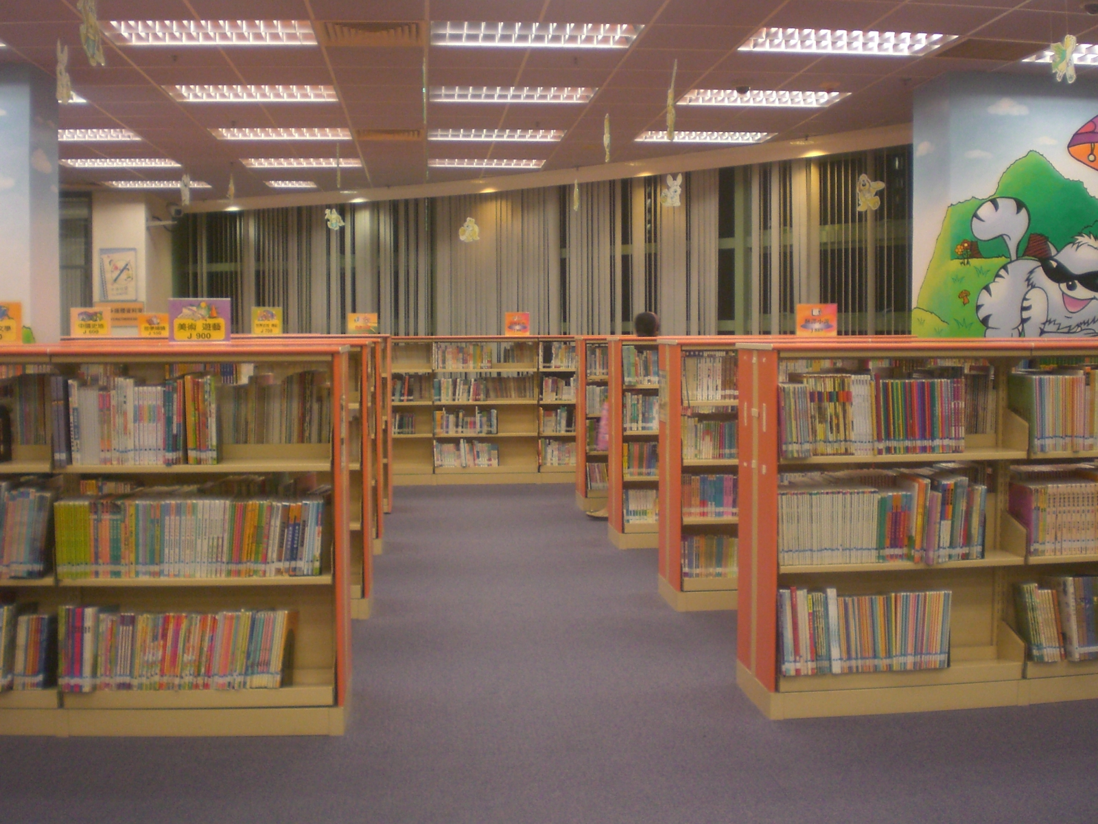 香港柴灣公共圖書館